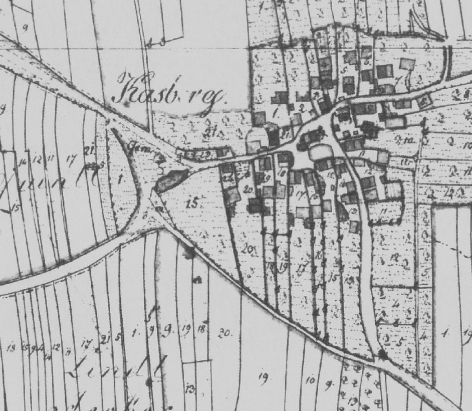 Detail of the map of the village Kasberg, nowadays belonging to Gräfenberg, Germany from 1822. The detail shows the village of Kasberg, sourrounding fields, roads from and to it and the crossroads where the Kasberg lime tree is located.